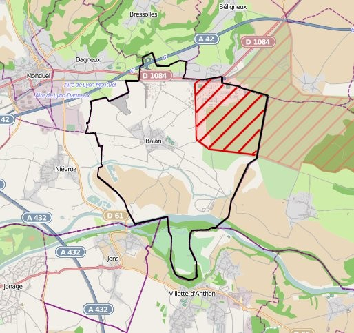 Geolocalisation: top: 45.8692 bottom: 45.7844 left: 5.0429 right: 5.1722